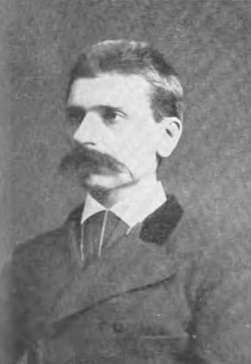 Herr von Kállay (Minister of Finance, Austria-Hungary)